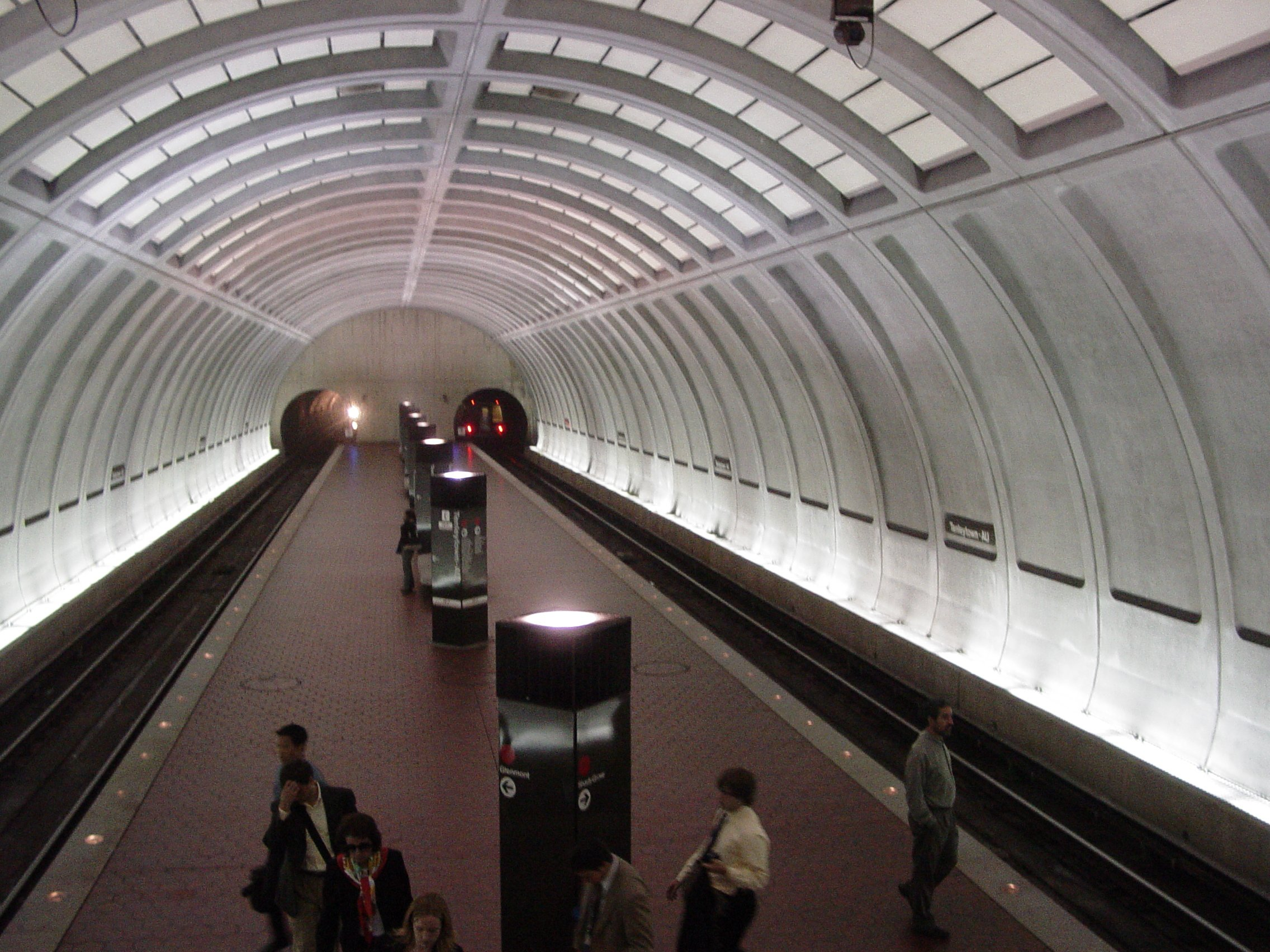 Tenleytown-AU Metro station